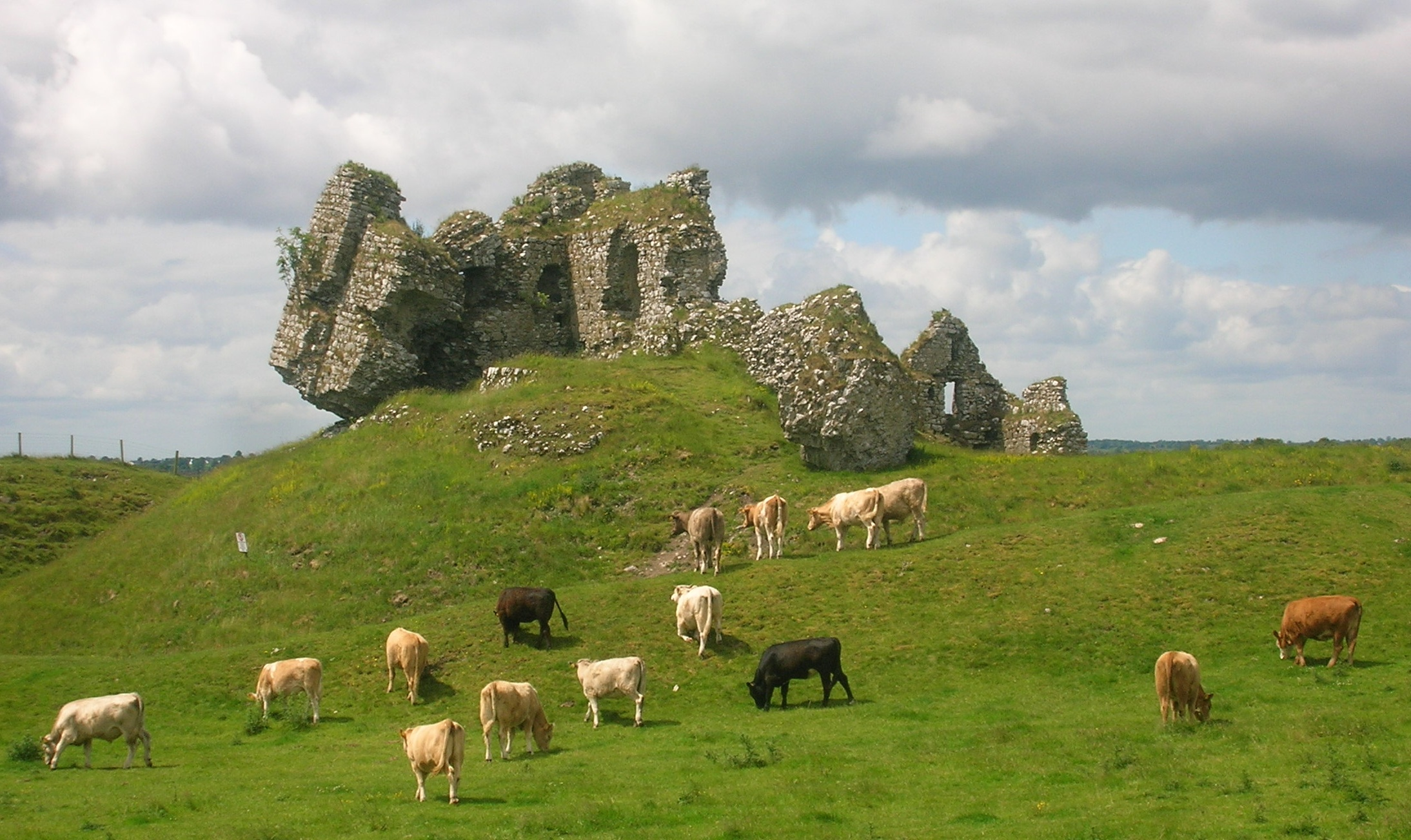 Cows grazing besides the ruins of the Norman castle at Clonmacnoise, County Offaly, Ireland